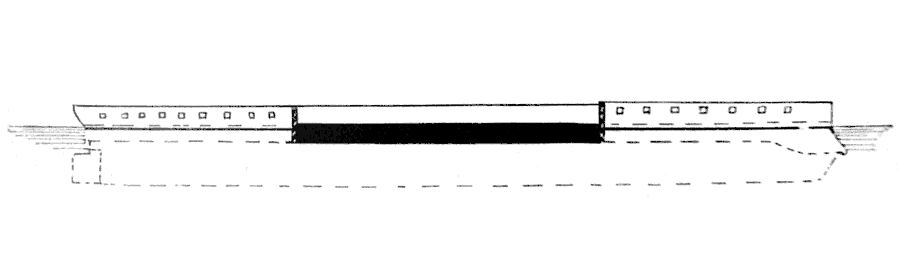 From Harper's Monthly Magazine, February 1886